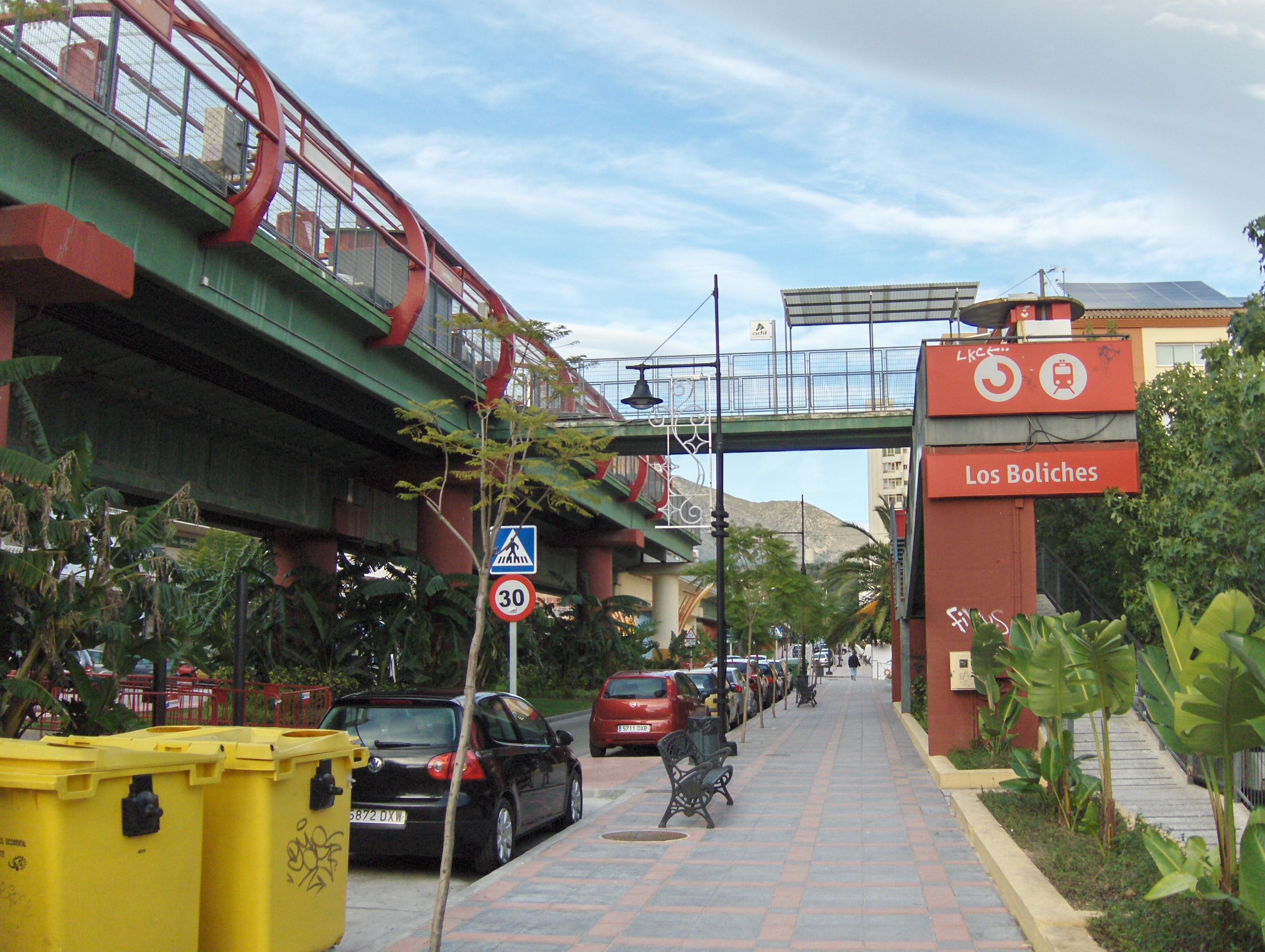 Los Boliches Station, Fuengirola, Spain.